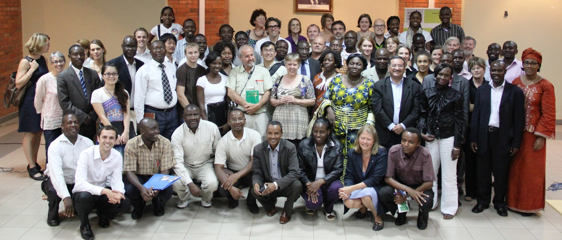 Group photo taken at the 13th SuSanA meeting which was held at the KIST in Kigali, Rwanda. Photo taken on 18 July 2011 by S. Blume